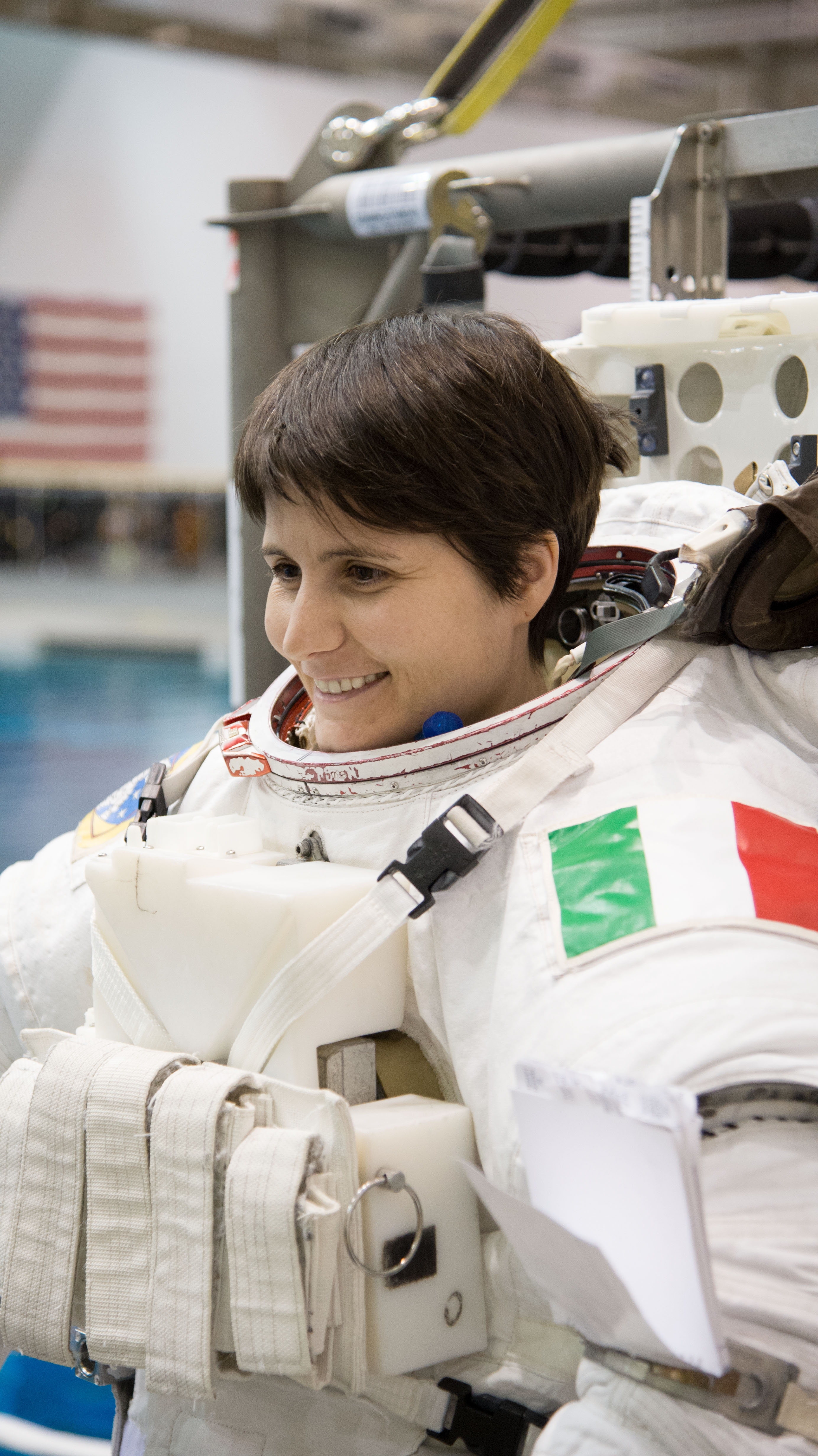 European Space Agency astronaut Samantha Cristoforetti, Expedition 42/43 flight engineer, attired in a training version of her Extravehicular Mobility Unit (EMU) spacesuit, awaits the start of a spacewalk training session in the waters of the Neutral Buoyancy Laboratory (NBL) near NASA's Johnson Space Center.